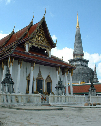 Phra Boromathat Chedi of Phra That Nakhon.